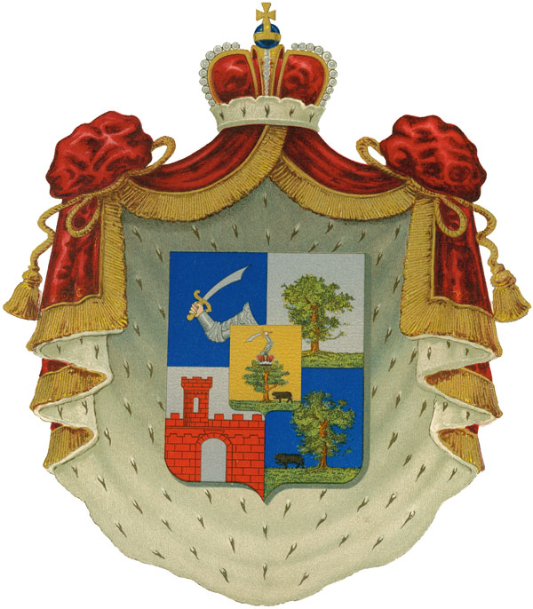 Russian princely Gagarin family coat of arms.